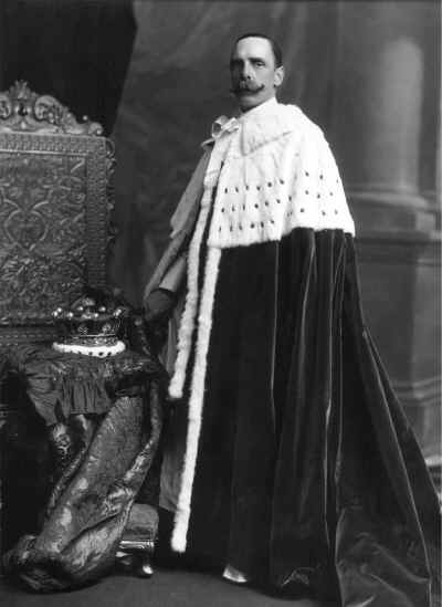 Archibald Hay, 13th Earl of Kinnoull, on occasion of the coronation of King Edward, 1902